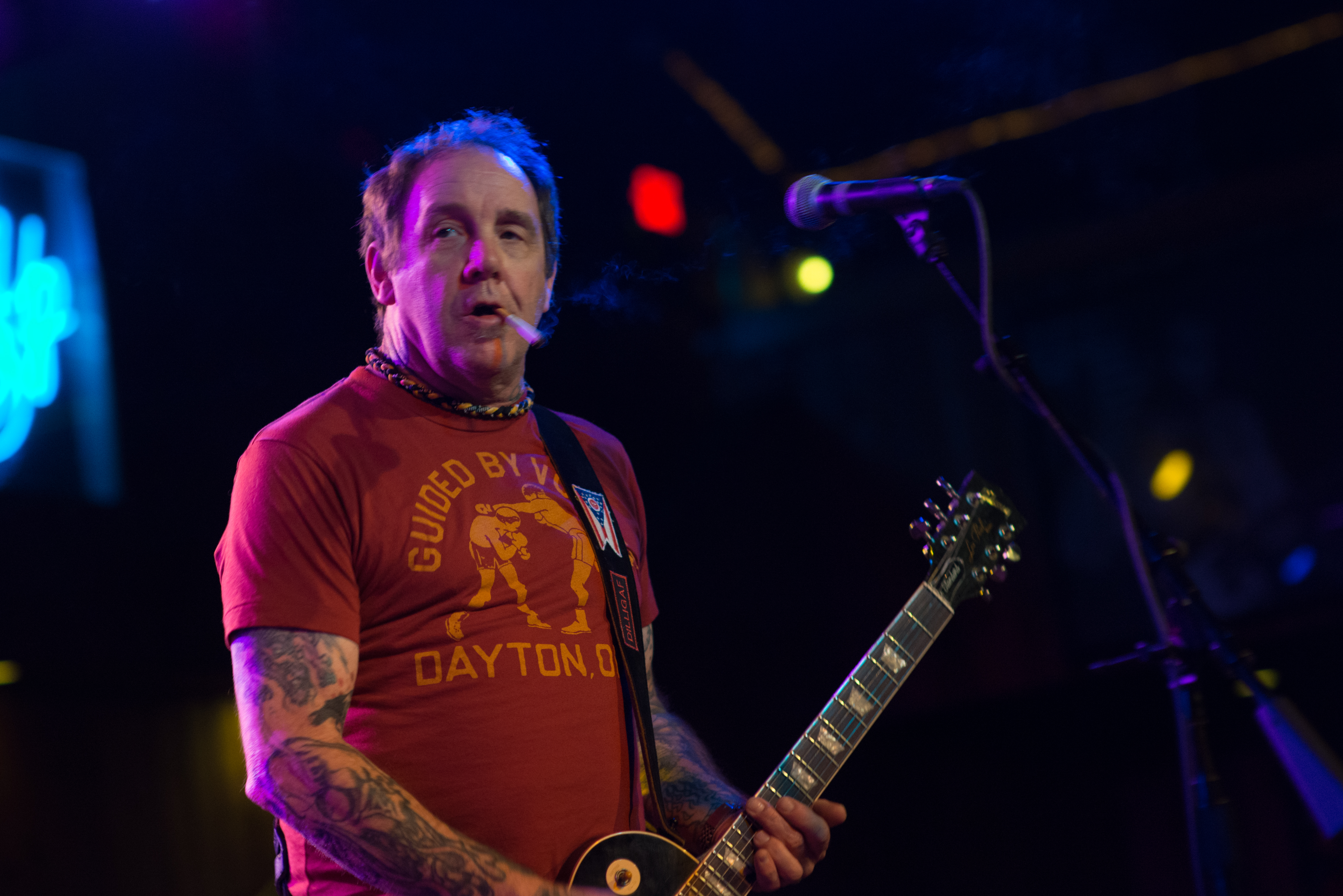 Mitch Mitchell performing in Solana Beach, California in 2014